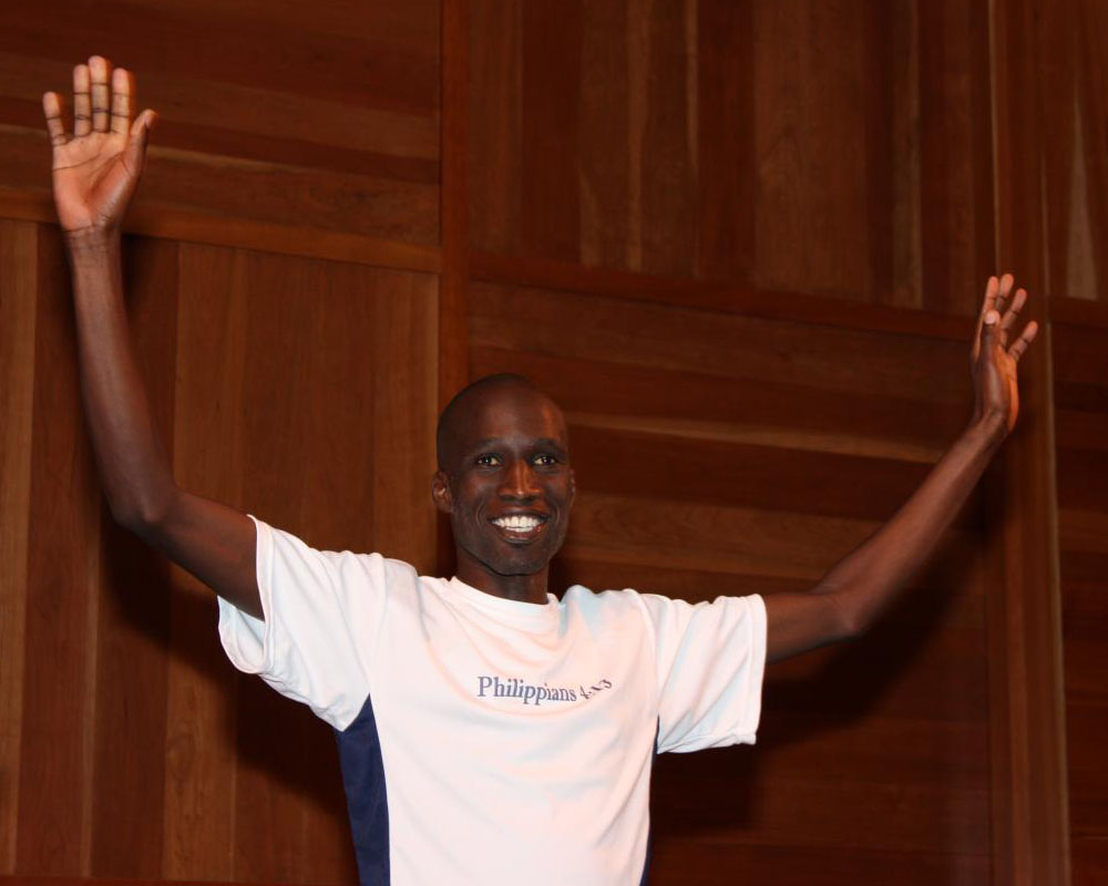 Wesley Korir of Kenya at a press conference after winning the 2009 Los Angeles Marathon. He set a course record with a time of 2:08:23.